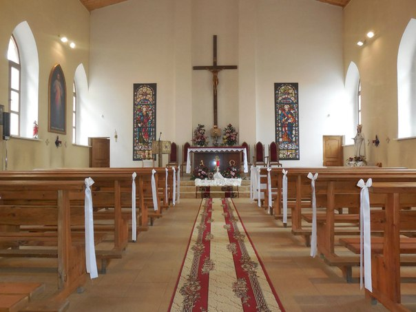 Catholic Church of Saint Peter and Saint Paul